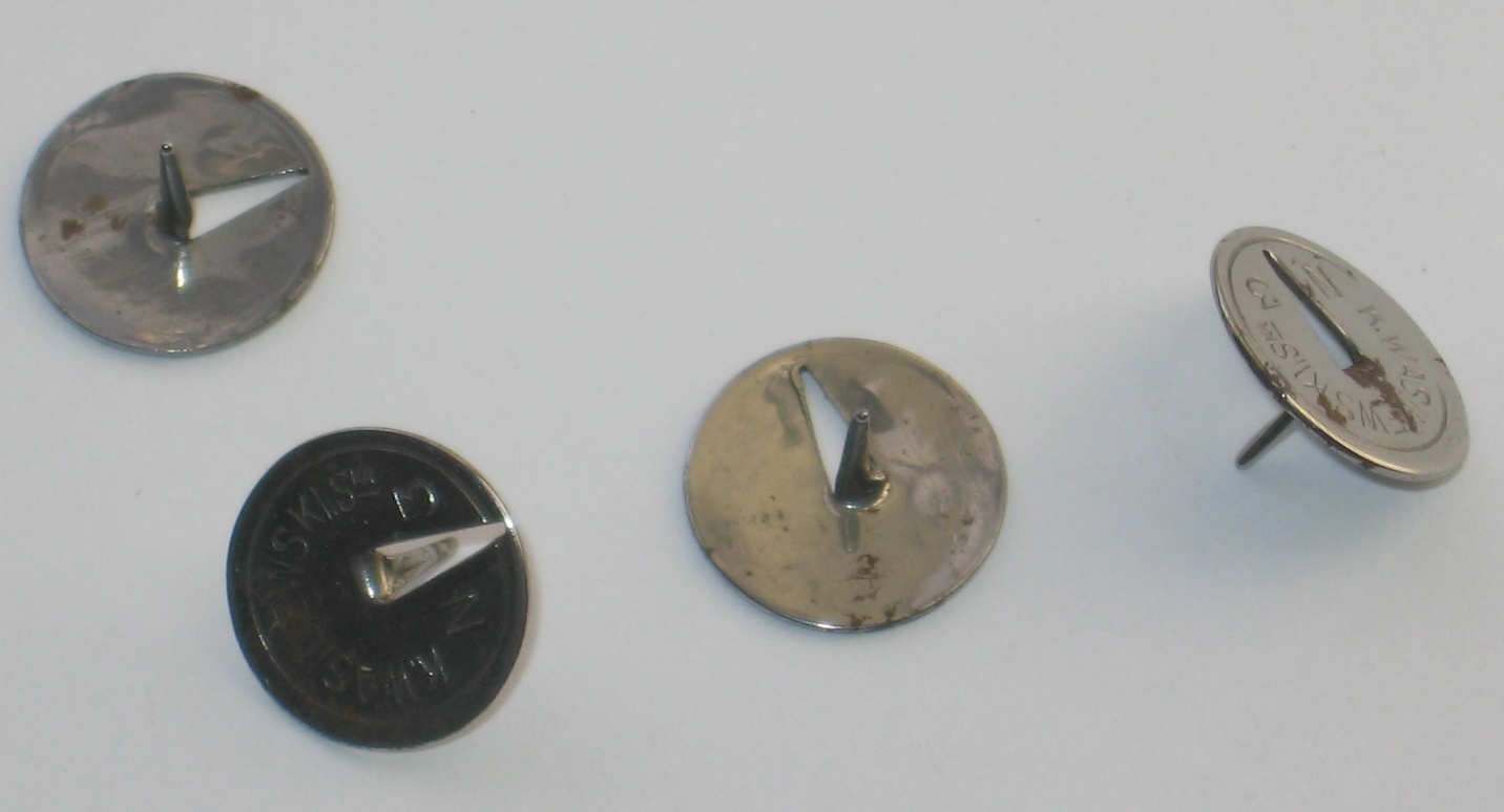 Thumbtacks, manufactured by the company K.Wasilewski & S-ka in 1930's, using the simplest way: each detail emmbossed and cut out from tinware